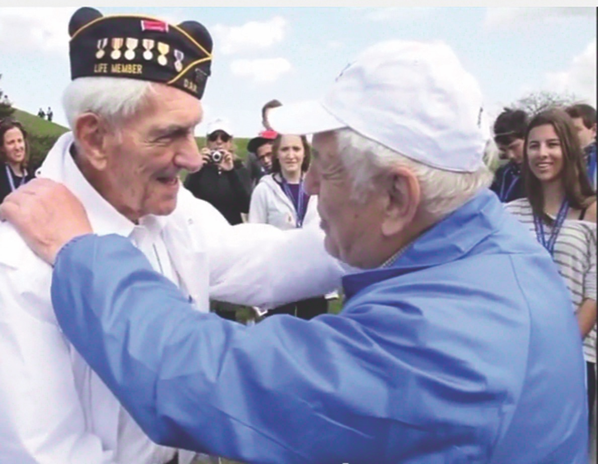 US Liberator Mickey Dorsey on the 2012 March of the Living where he met Joe Mandel of Toronto, who he liberated from a German camp in 1945.